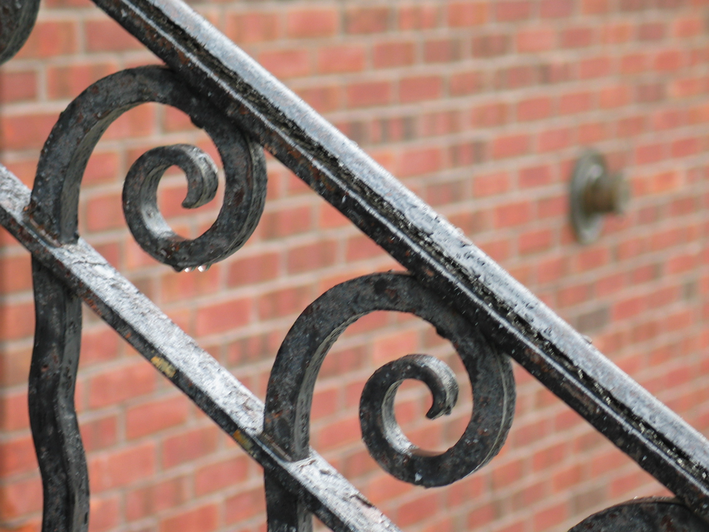 A railing in Troy, NY.